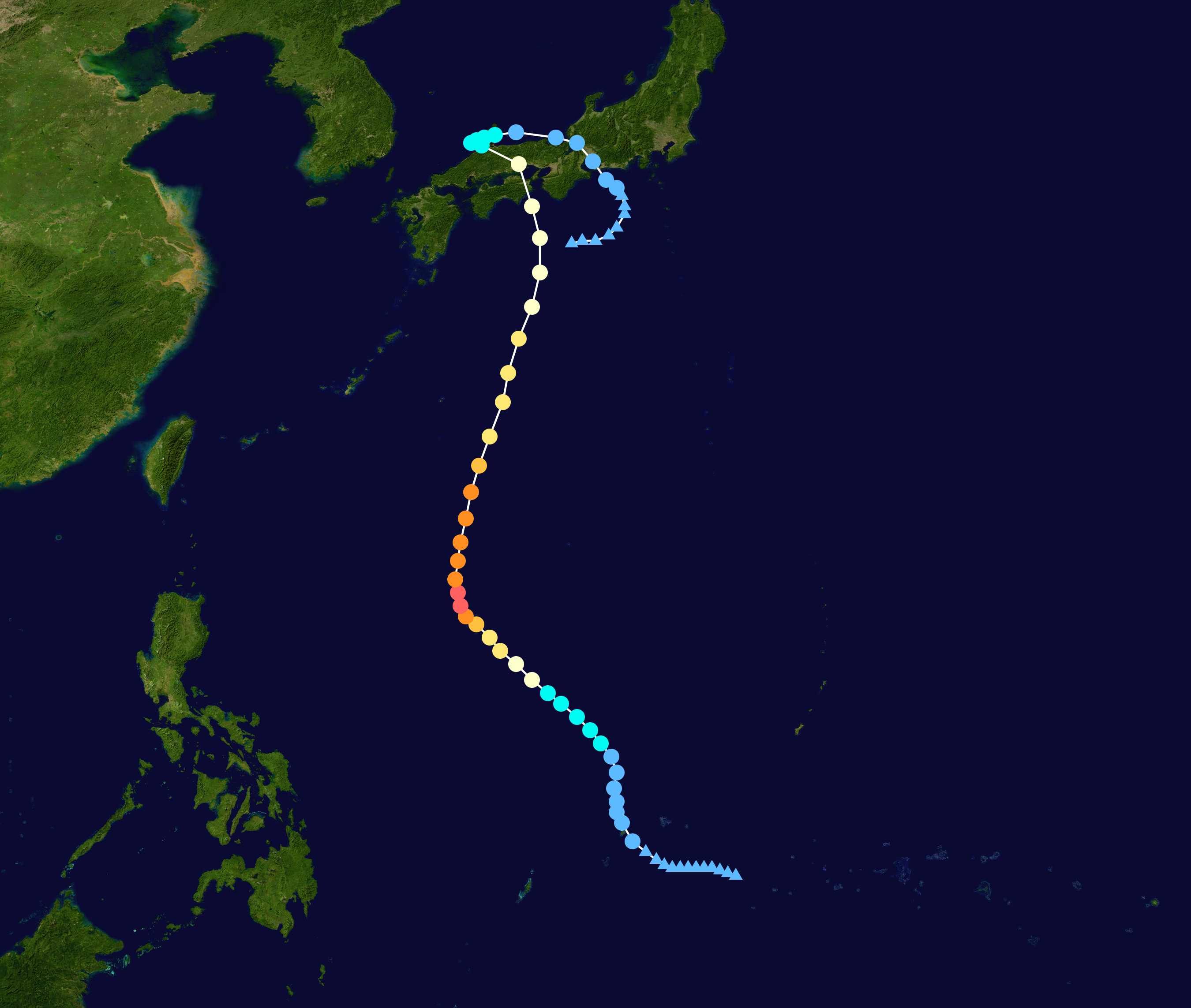 Typhoon Rosie 1997 track. Uses the color scheme from the Saffir-Simpson Hurricane Scale.